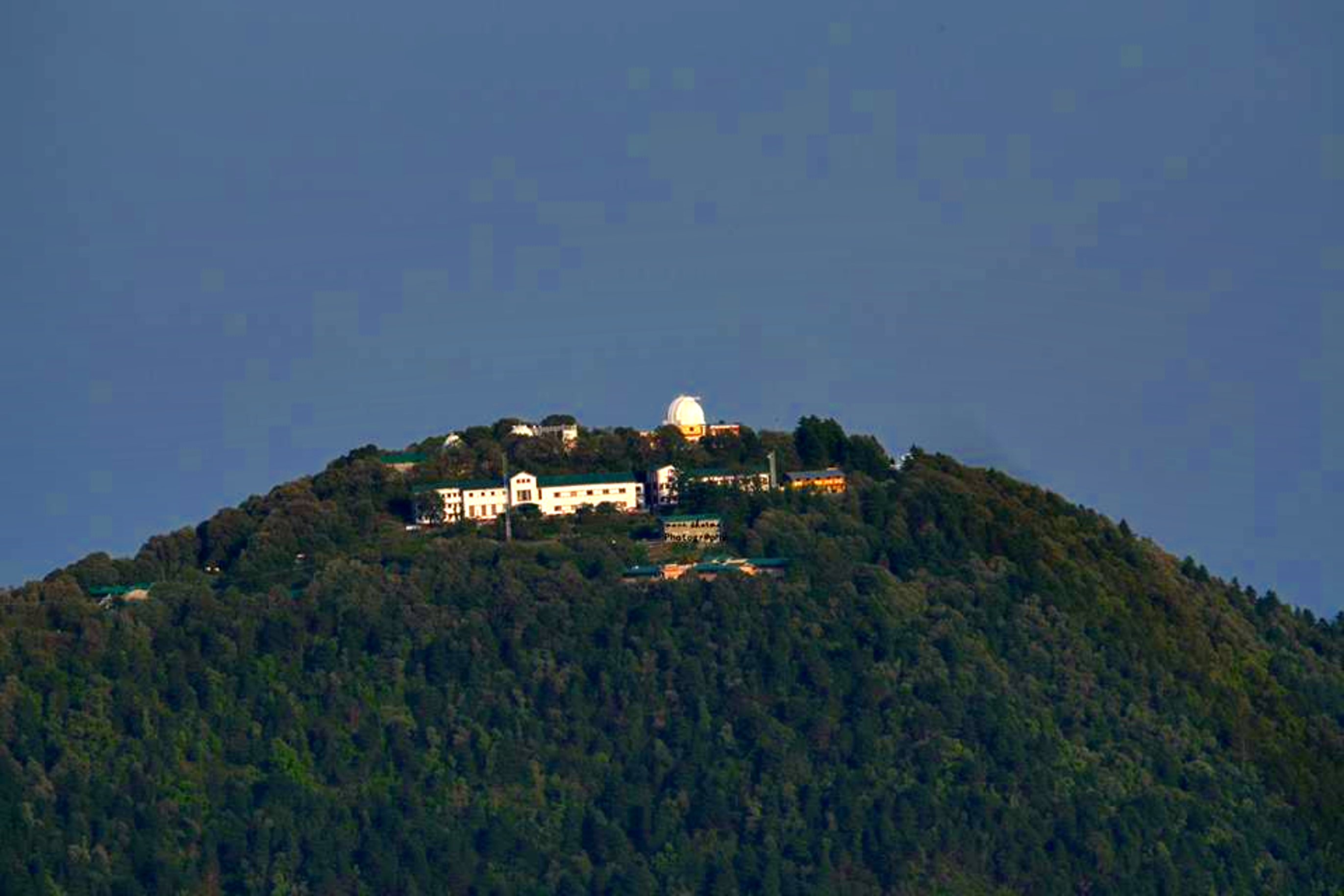 Institute view